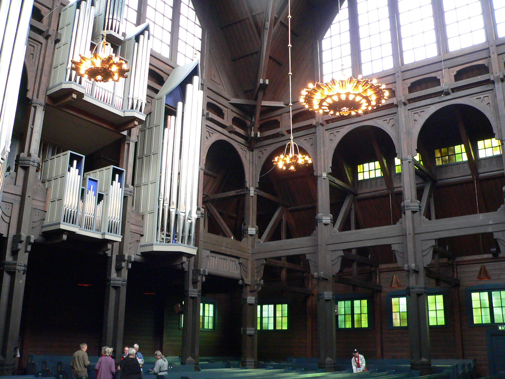 Kiruna Church interior